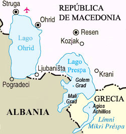 Taken from Image:Prespa_lakes_map.png. Map of Lake Prespa and Lake Ohrid, adapted from